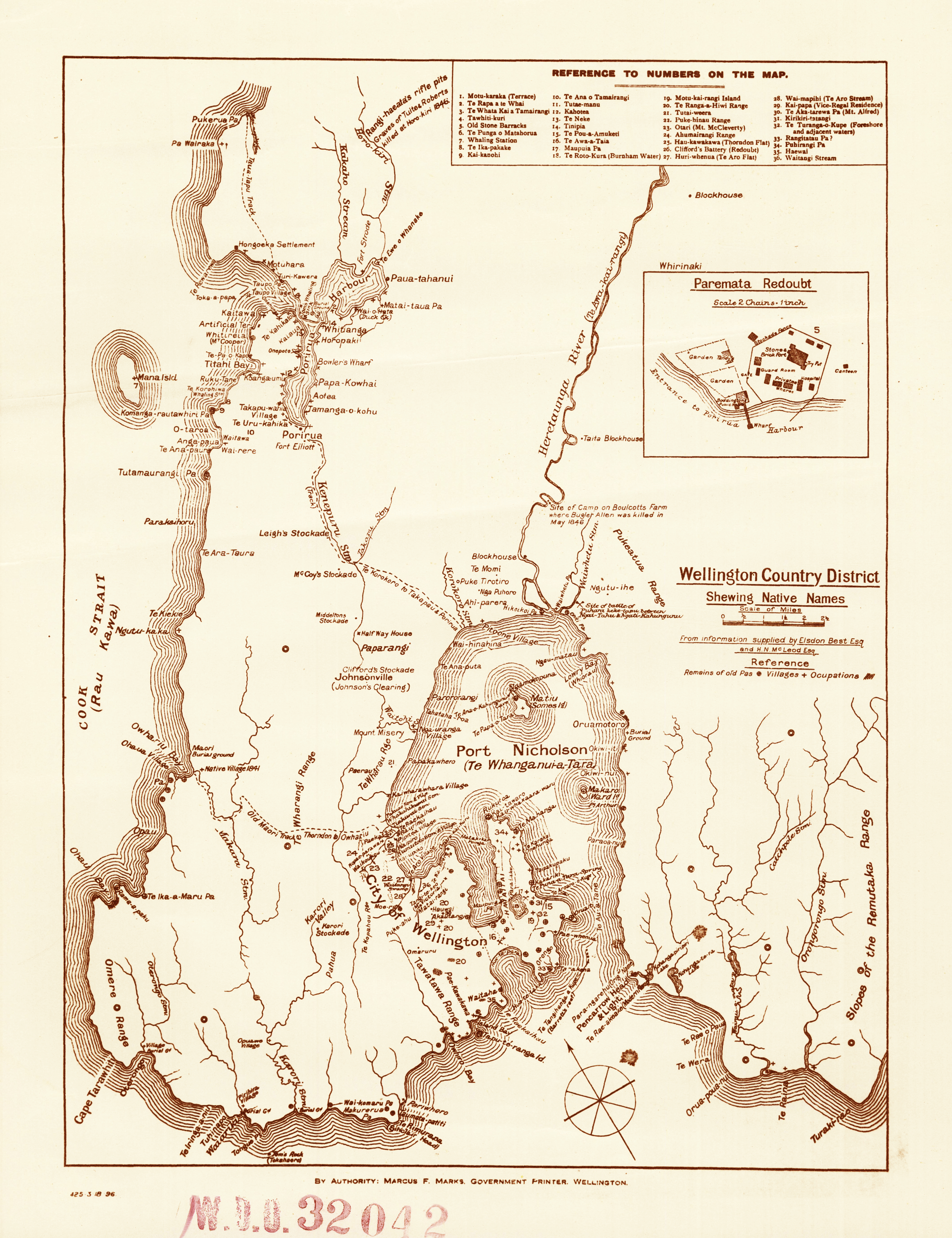 This early map of Wellington County District shows a number of important historical sites, including Māori pā, pathways, wāhi tapu, and pre-1840 battle sites, as well as battle sites from the New Zealand Land Wars. A detail of Paremata Redoubt is also shown. The map comes from a folder of Public Works maps of early Wellington (mainly copies rather than originals). Archives Reference: AAOD W3273 Box 26/ WDO 32042 Material from Archives New Zealand